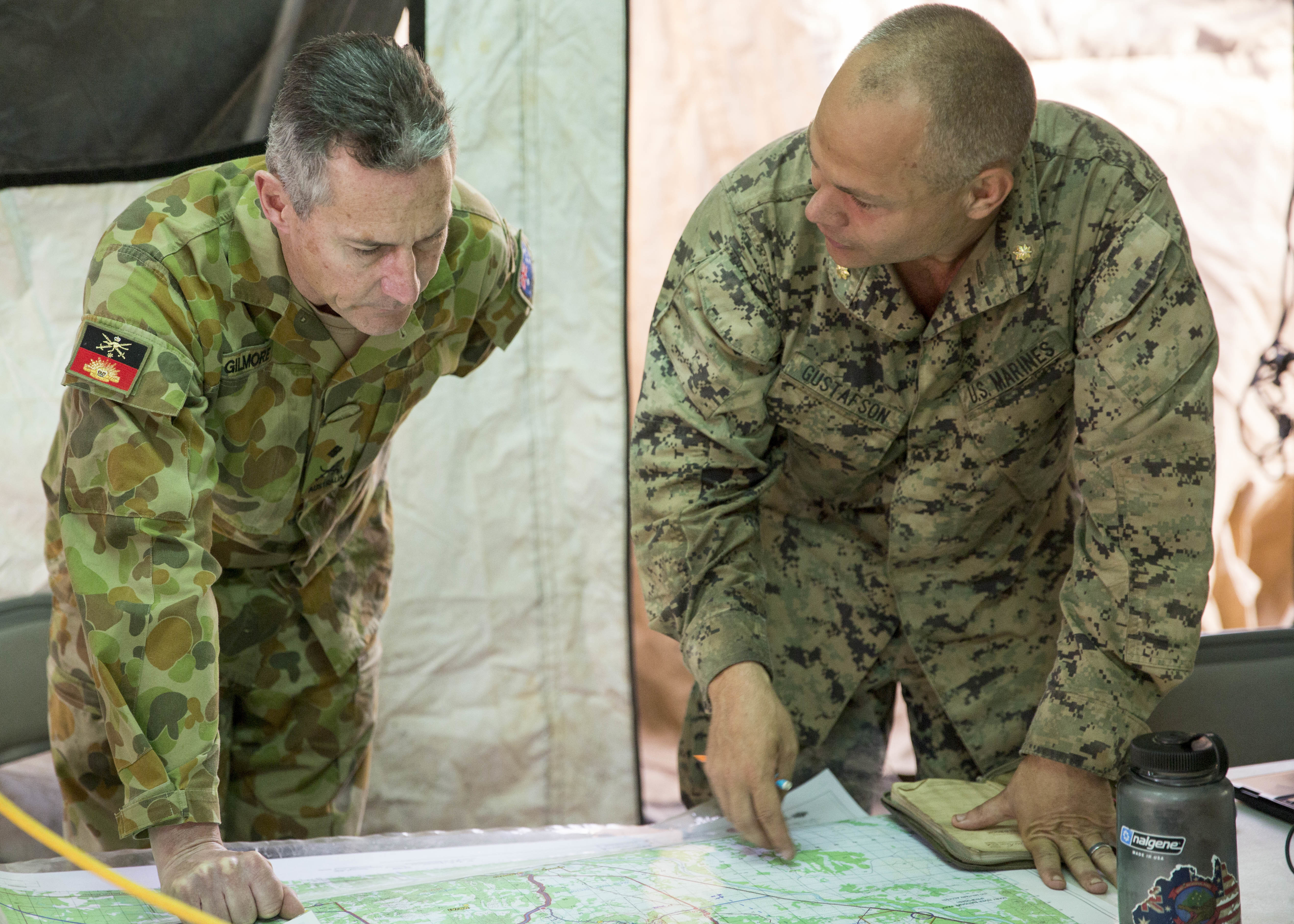 U.S. Marine Corps Maj. David Gustafson, operations officer, 1st Battalion, 4th Marine Regiment, Marine Rotational Force – Darwin, discusses troop movements for an air assault course with Maj. Gen. Peter Gilmore, Commander of Forces Command, Australian Army, Australian Defence Force, Aug. 26 during Exercise Crocodile Strike at the Mount Bundey Training Area, Northern Territory, Australia. Marines with MRF-D participated in bilateral training with the Australian Defence Force for two weeks, including dry and live-fire exercises with air and ground combat elements. The six-month rotational deployment of U.S. Marines affords an unprecedented combined training opportunity with our Australian allies and improves interoperability between our forces. (U.S. Marine Corps photo by Cpl. Reba James/Released)